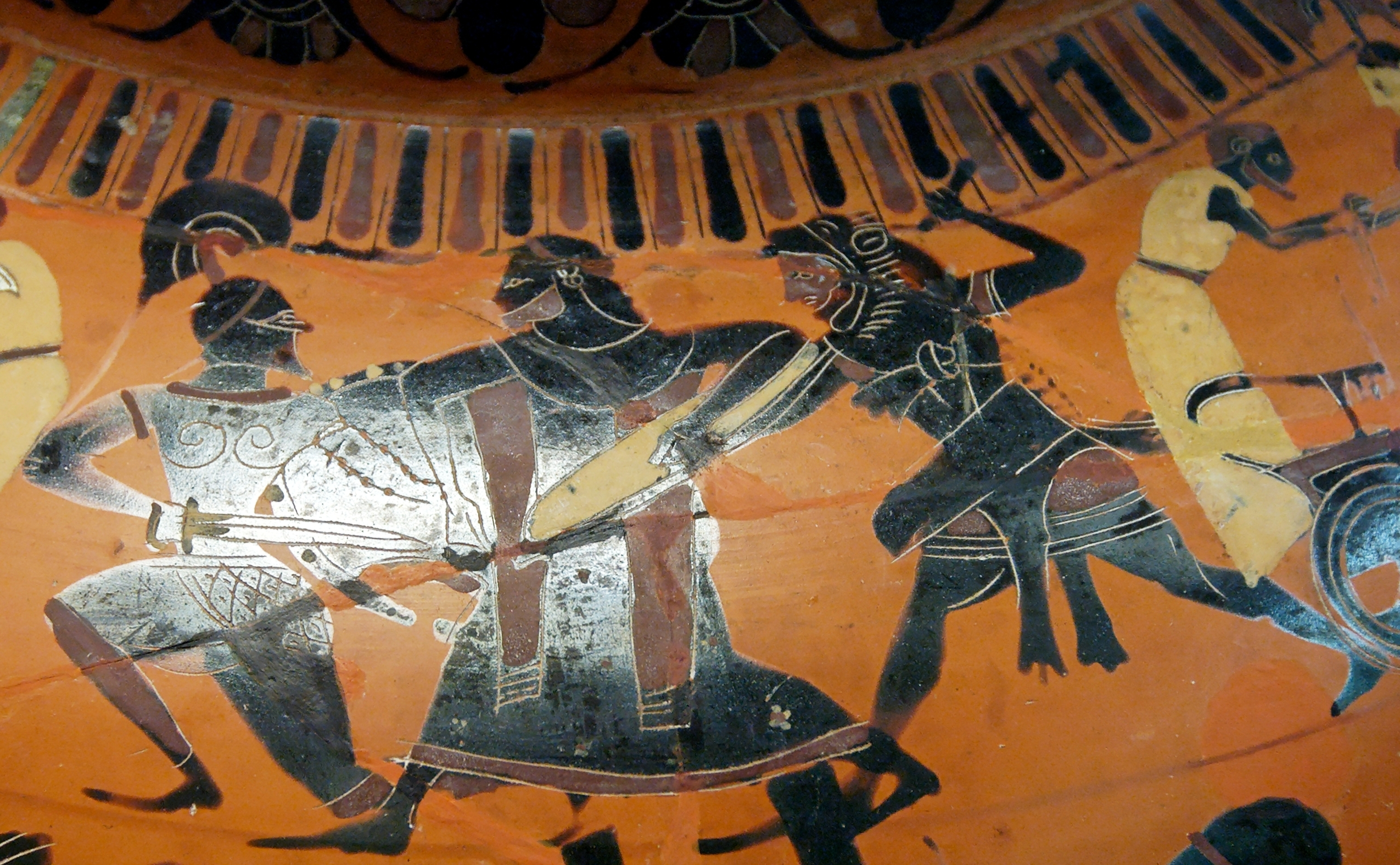 Herakles (right) pursues Kyknos (left) while Zeus (centre) tries to part the fighters. From the shoulder of an Attic black-figured amphora, ca. 545–530 BC.